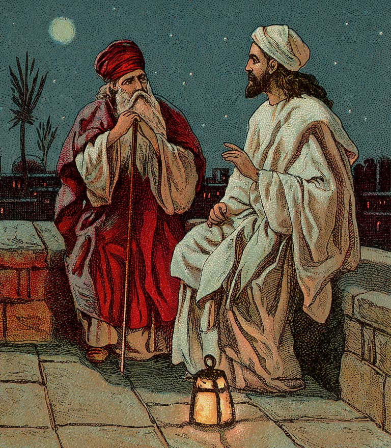 Jesus and Nicodemus